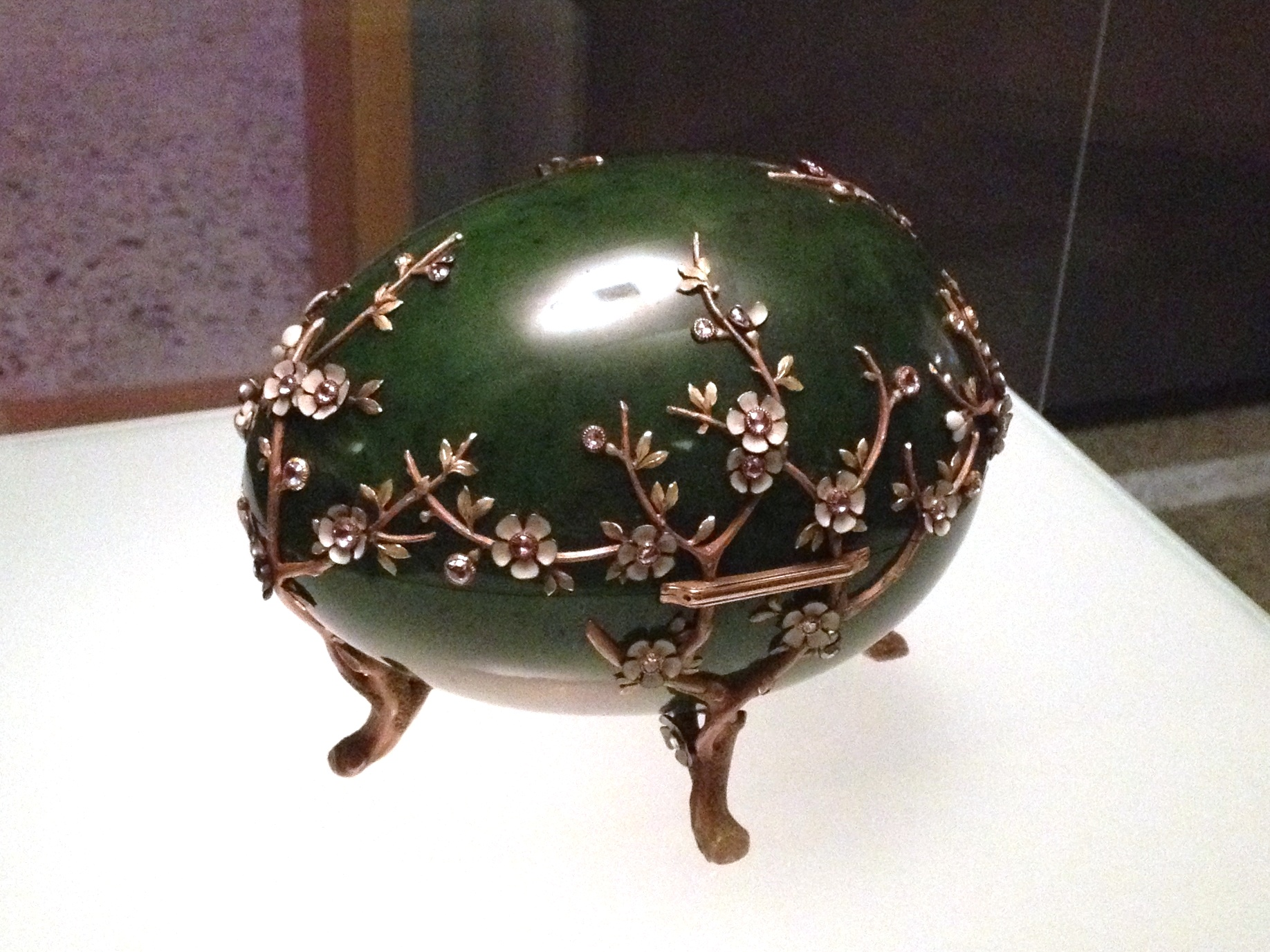 Apple Blossom Egg, by Carl Fabergé. Master stamp by Michael Evlampievich Perchin. St. Petersburg, 1901. Gold, diamonds, nephrite.